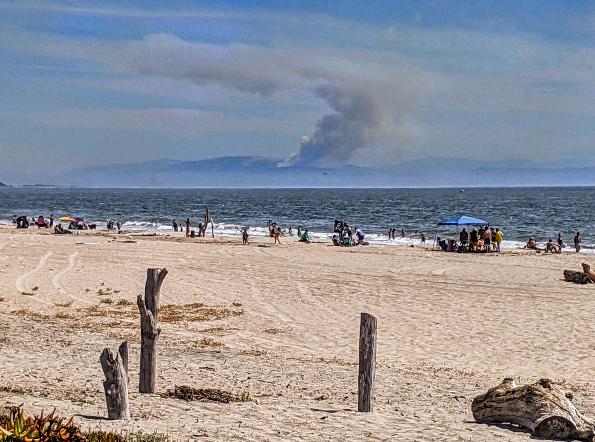 The River Fire (south of Salinas, Calfornia) smoke plume as seen from the beach at Aptos, 16 August 2020, the day the fire started.